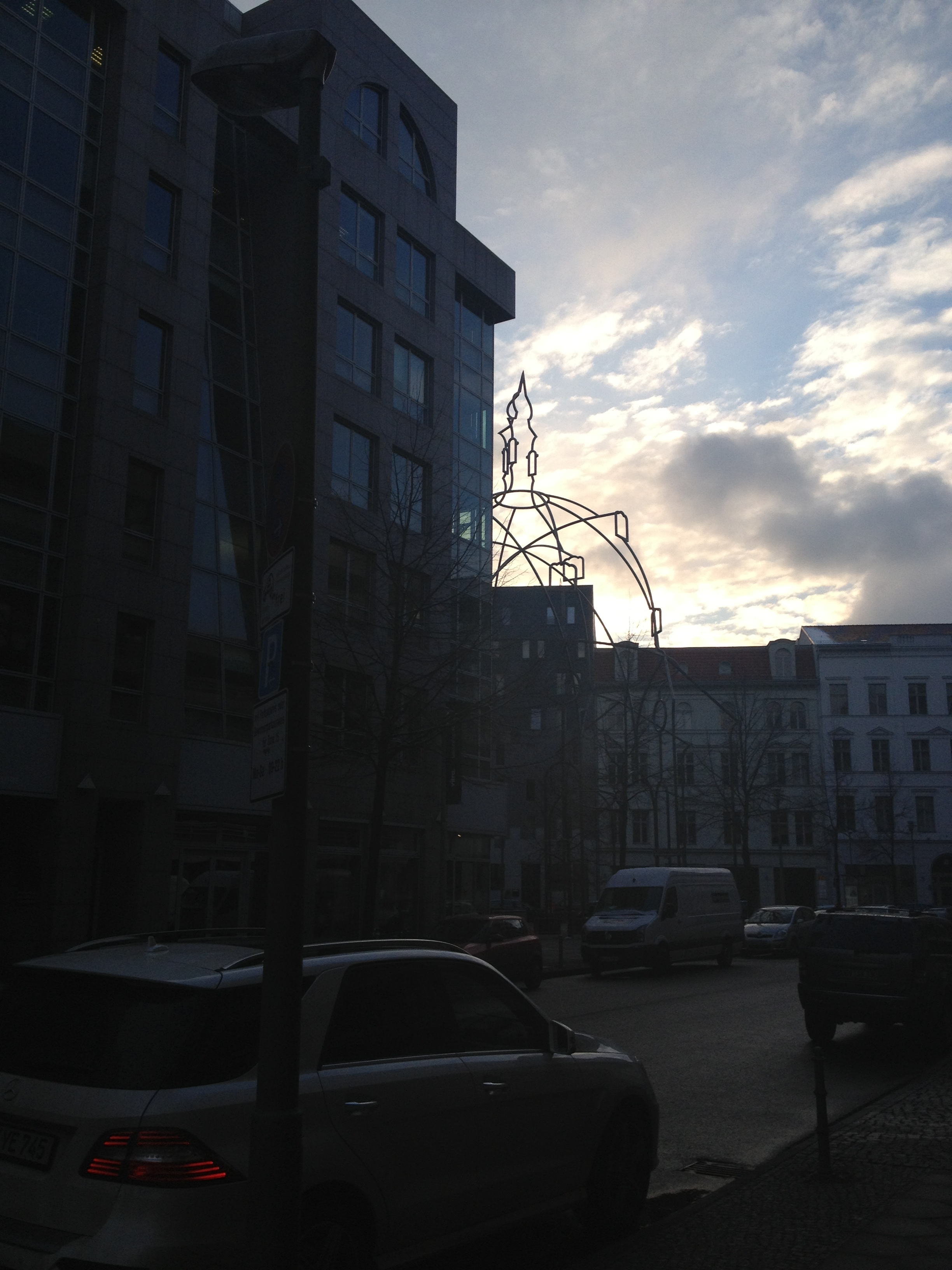 View from street Krausenstraße southwest to place Bethlehemkirchplatz with the stell construction remembering the church Bethlehemkirche in Berlin-Mitte, Germany